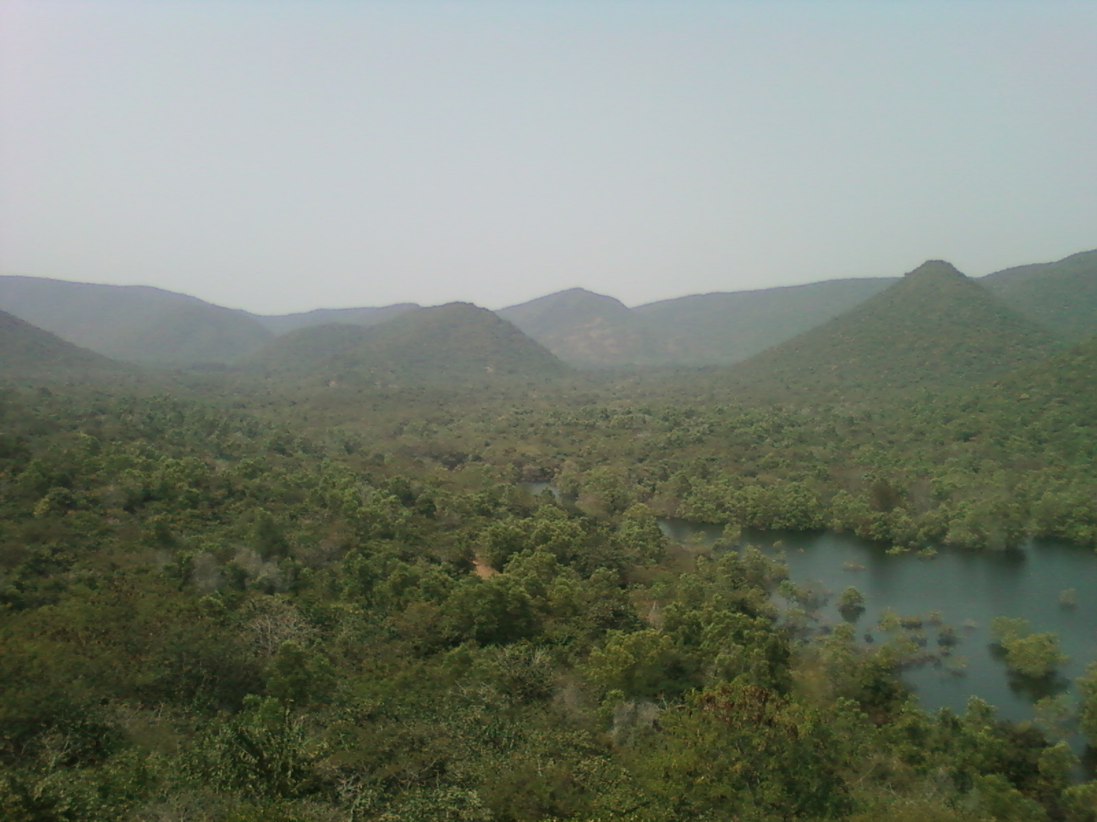 View of Eastern ghats in Kambalakonda Wildlife Sanctuary edging at visakhapatnam city